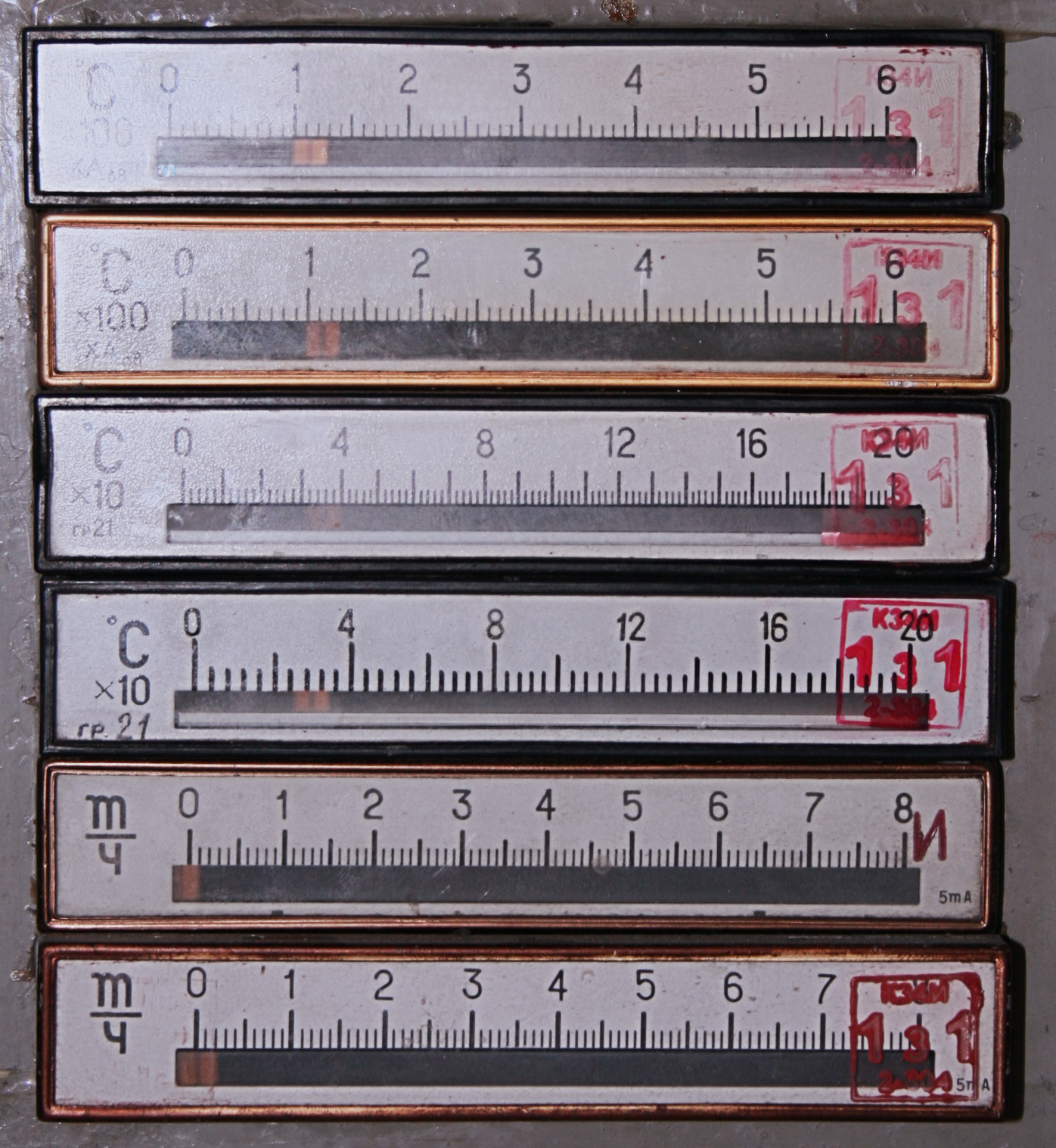 M1730-type measuring instruments on the power station control panel